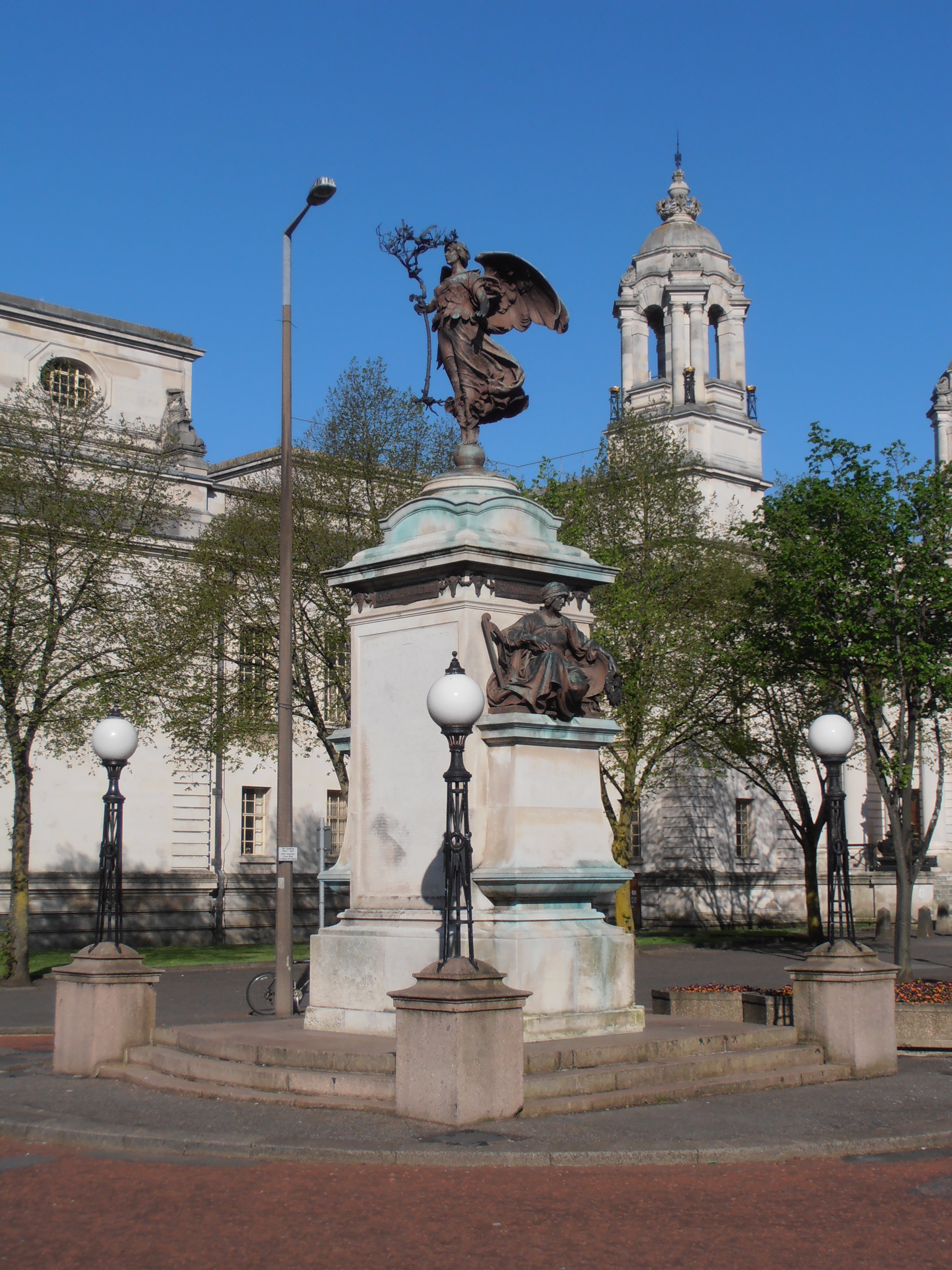 South African War Memorial, Cathays Park, Cardiff